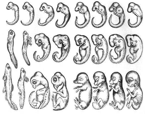 Images of Embryos of different species in different developmental stages, depicting Baer's rule. The first row of embryos for fish, salamander, turtle and chicken is a fraud.